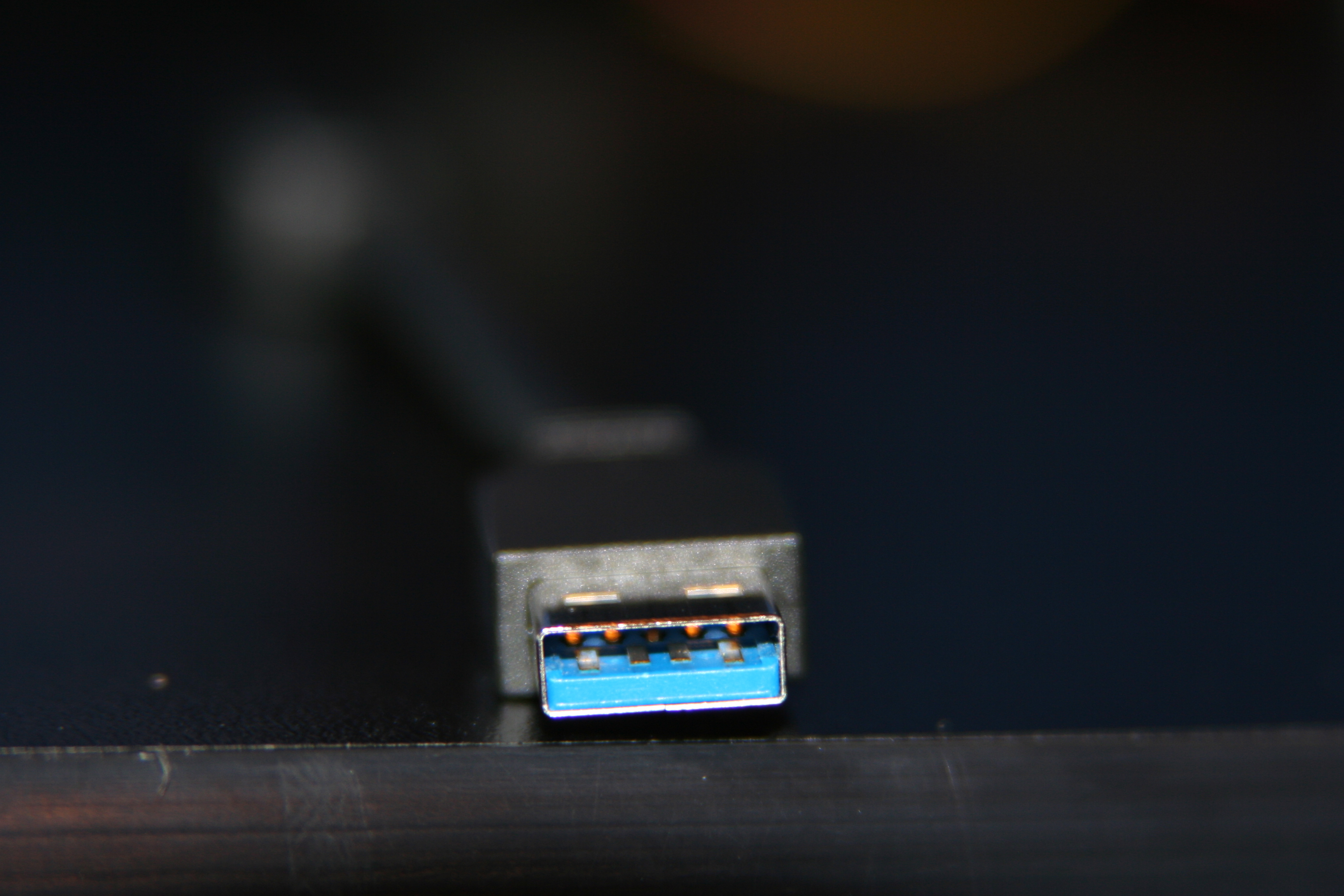 USB SuperSpeed A Male Connector